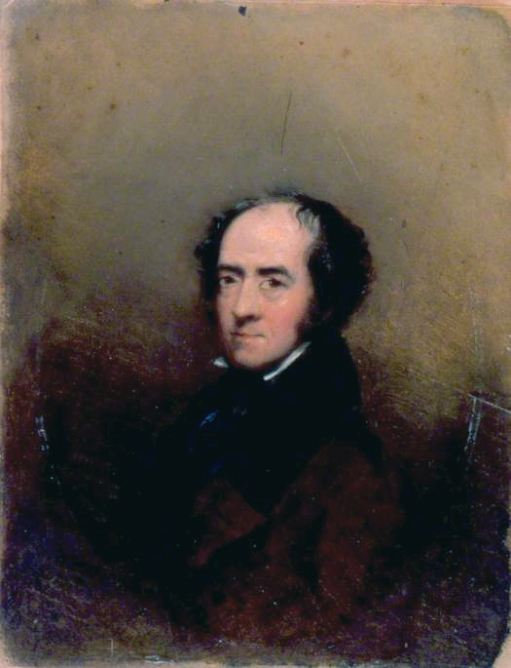 Self portrait oil on card 26 x 21 cm 1838